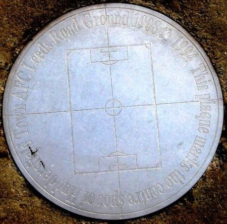 Plaque marking the Leeds Road ground centre spot. In any reproduction, acknowledgement must be given in the form - Photographer: Gareth J Dykes